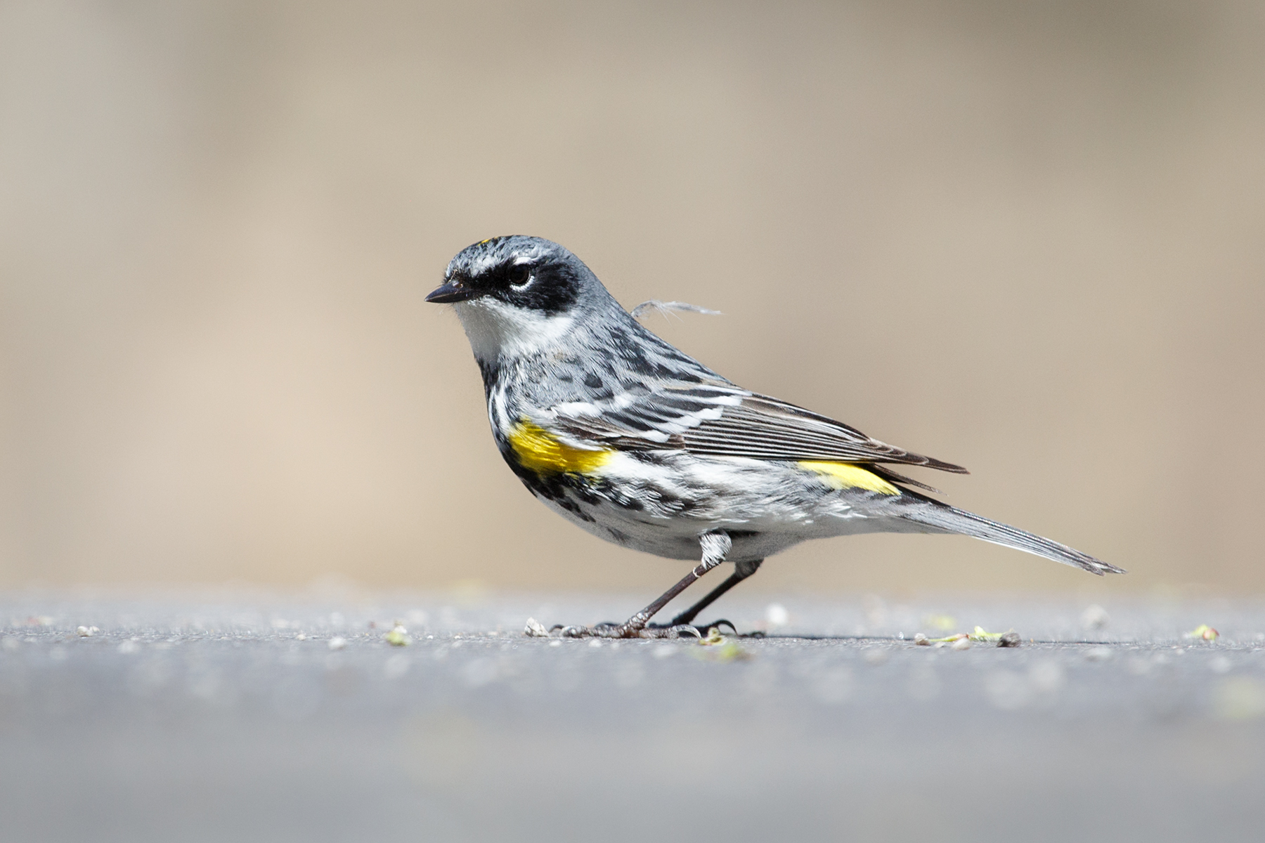 Myrtle Warbler